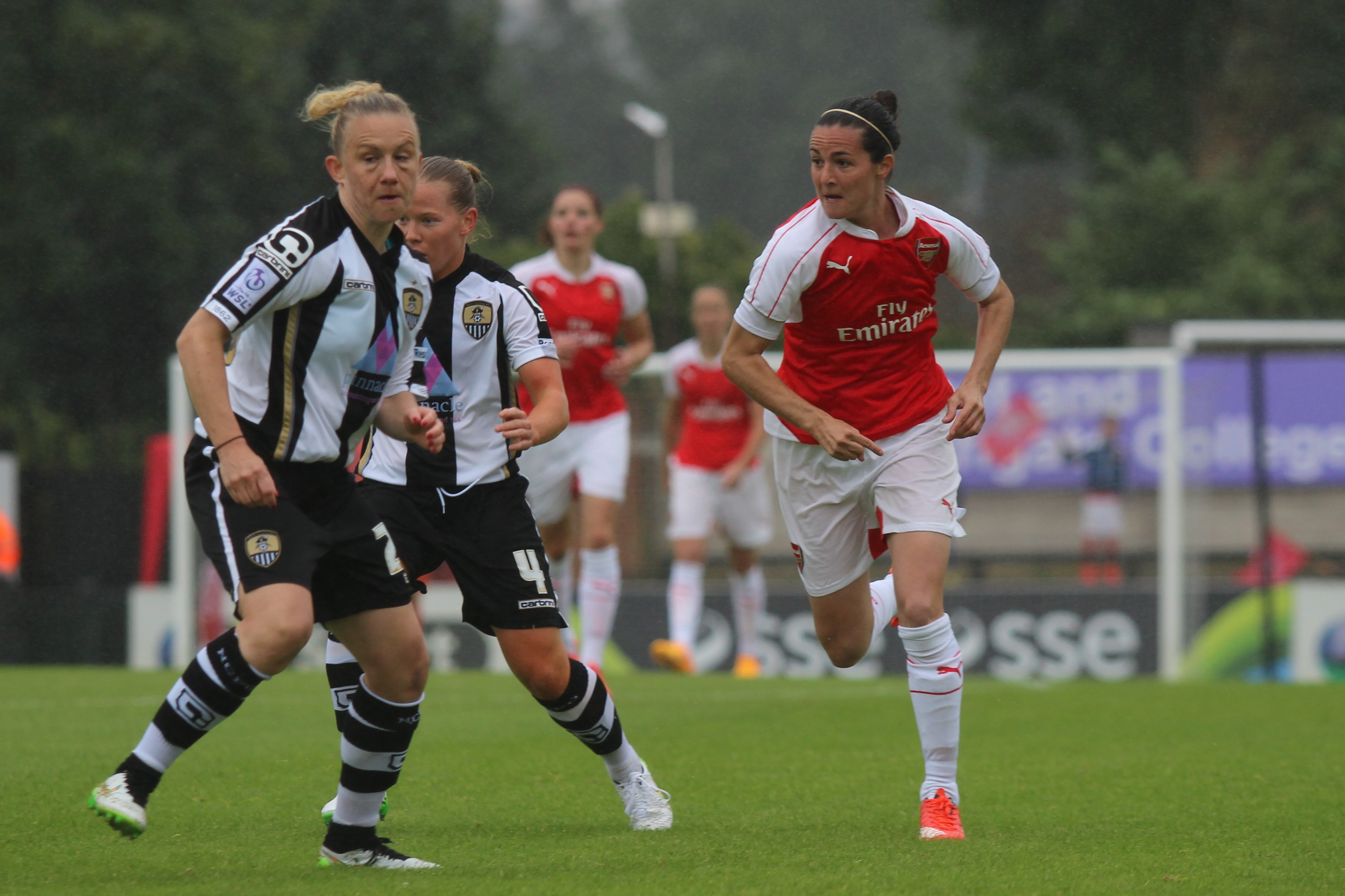 Natalia Pablos Sanchon of Arsenal Ladies runs alongside the Notts County defence.